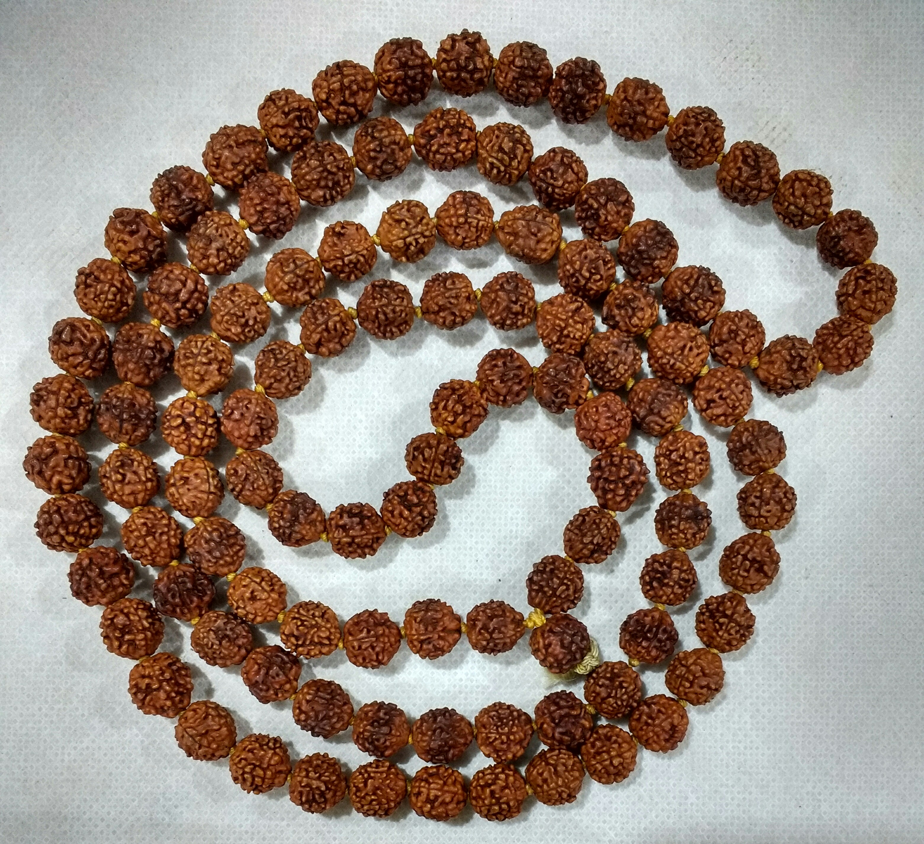 108+1 five mukhi Rudraksha mala